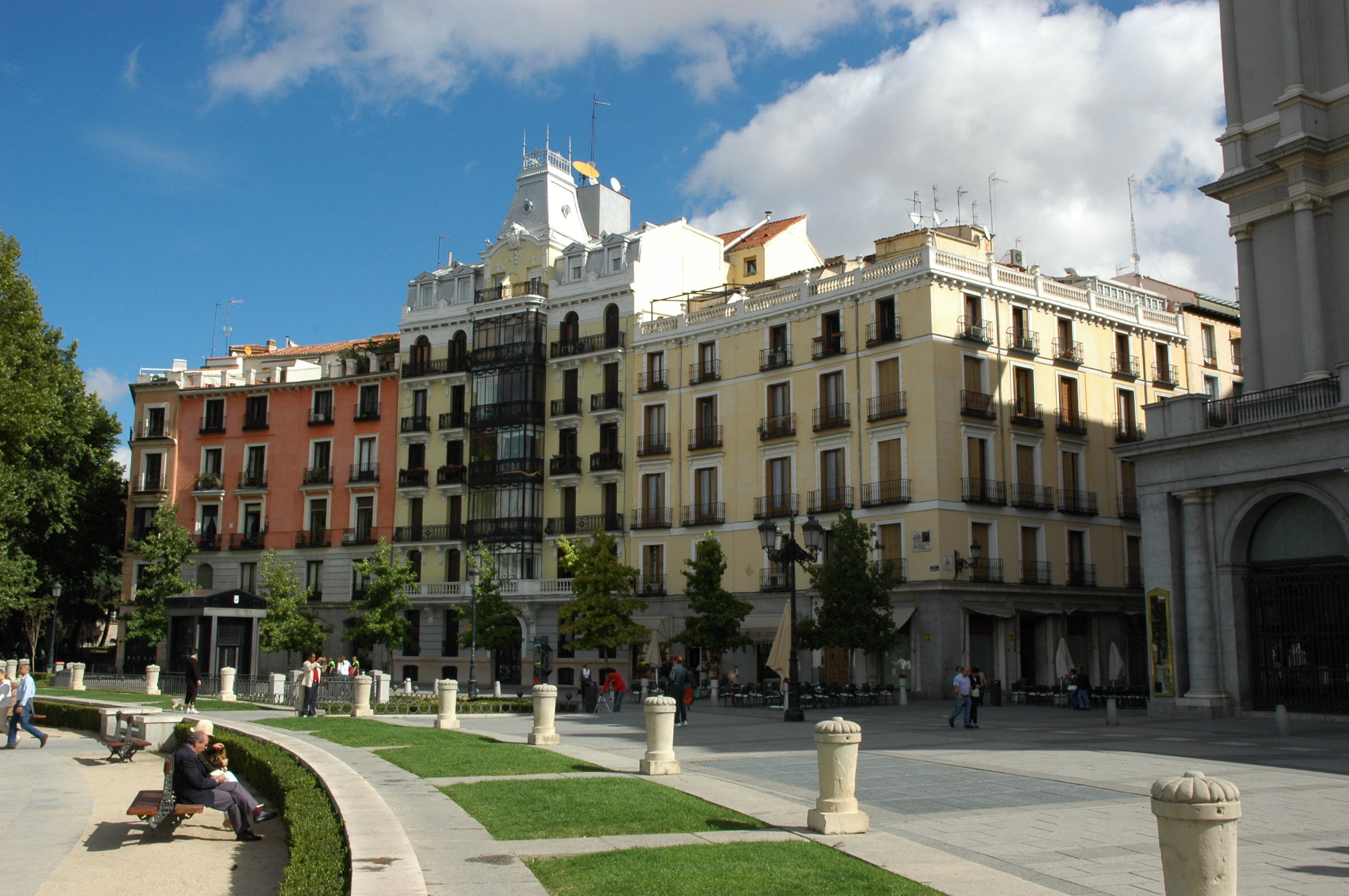 Partial view of the Plaza de Oriente (square) in Madrid (Spain).